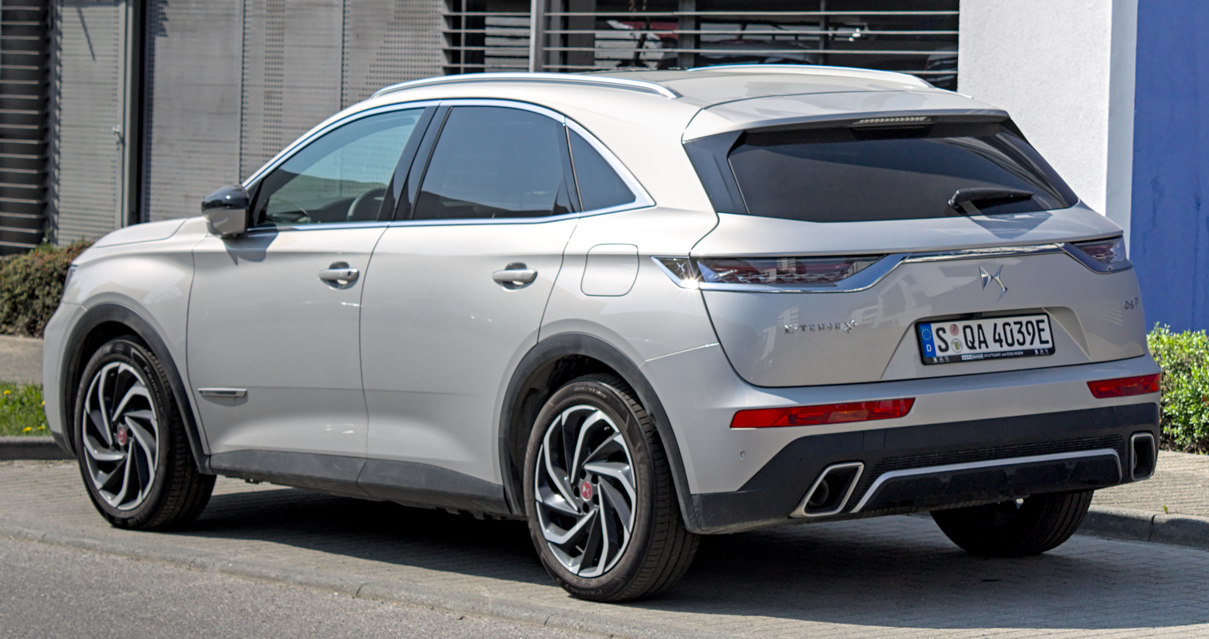 DS_7_Crossback_E-Tense in Stuttgart